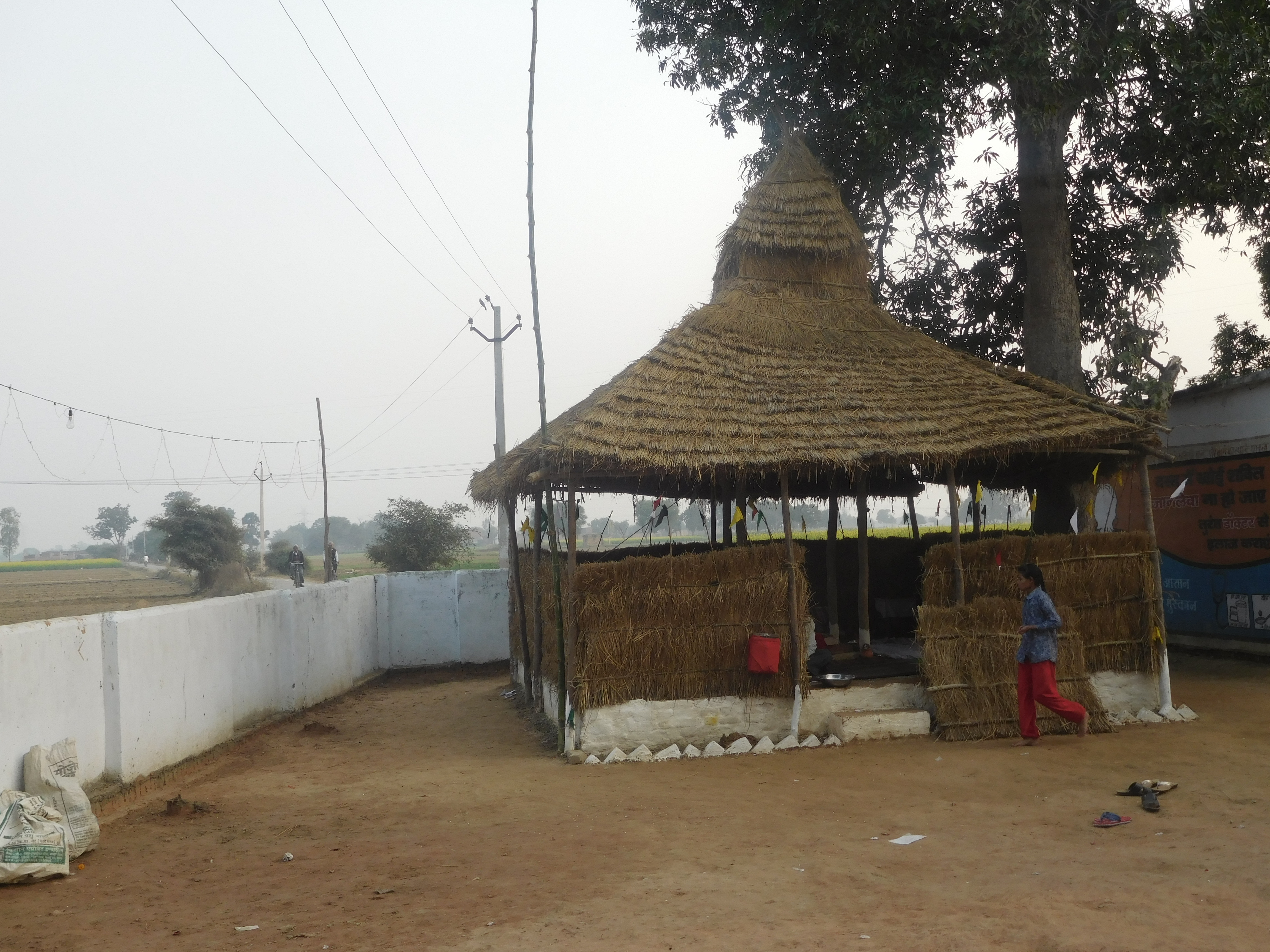 YAGYA Mandap , for highest Hindu religious program